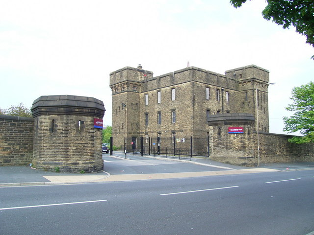 Entrance to Wellesley Barracks Once occupied by the Duke of Wellington's Regiment and opened in 1881; now used by Halifax High School.